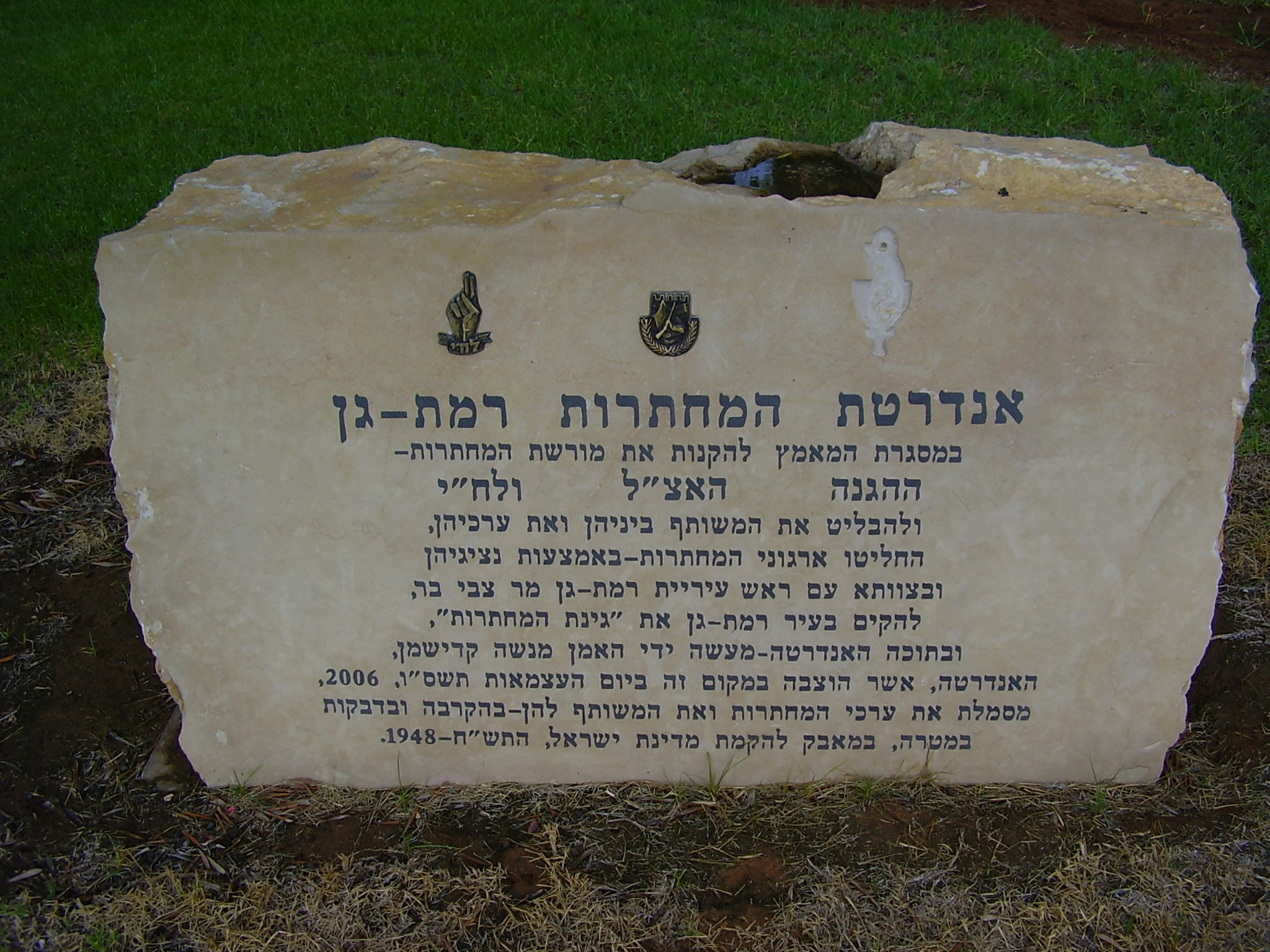 undergrounds memorial, ramat gan, israel